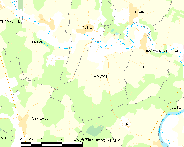 Map of French municipality